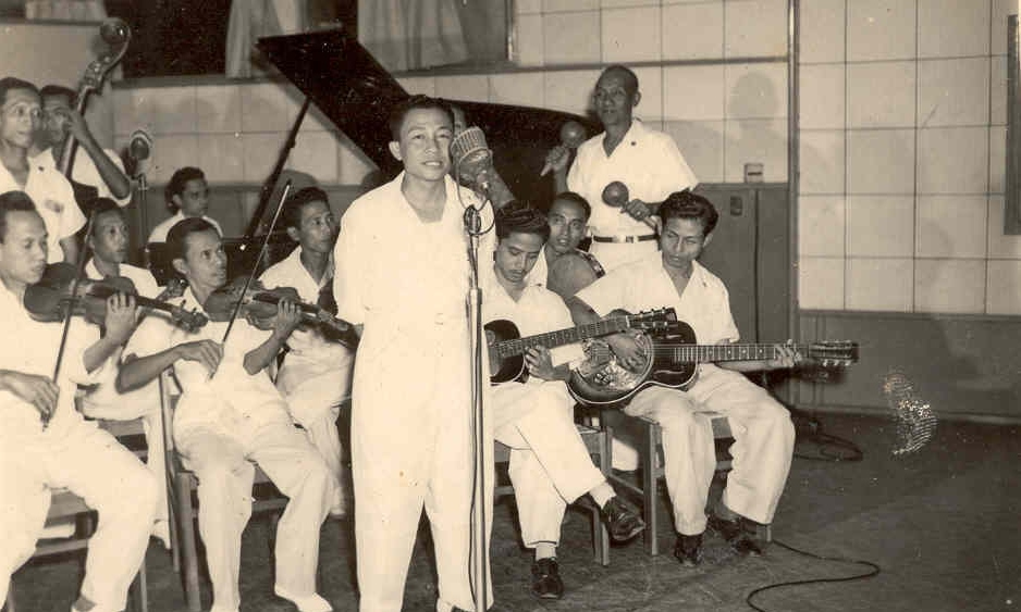 the first performance of Orkes Melayu Kenangan (previously named Orkes Gambus al-Usysyaaq) at Radio Republik Indonesia (R.R.I.) Jakarta on 26 october 1950.